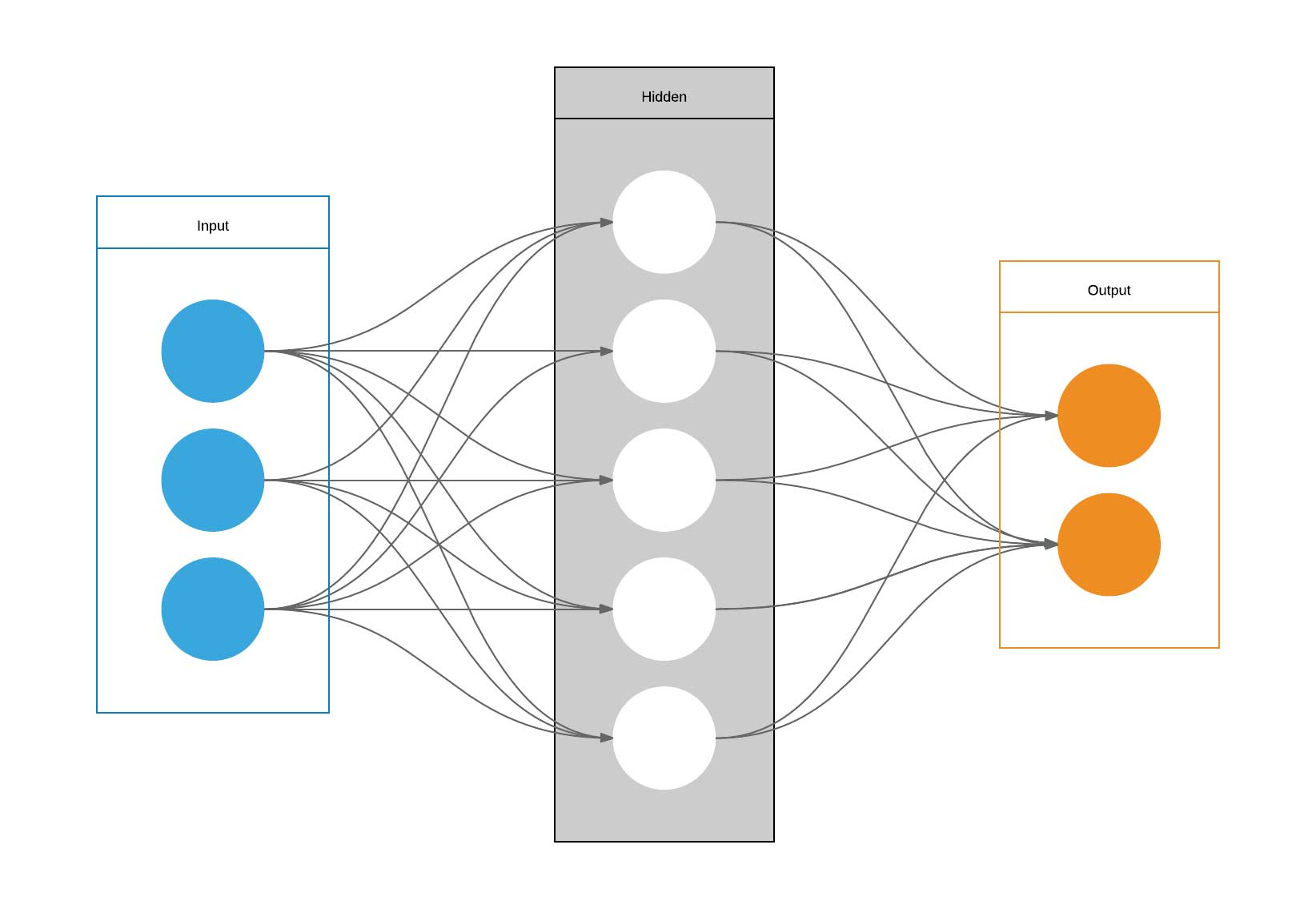 Depicts the node connections of an artificial neural network